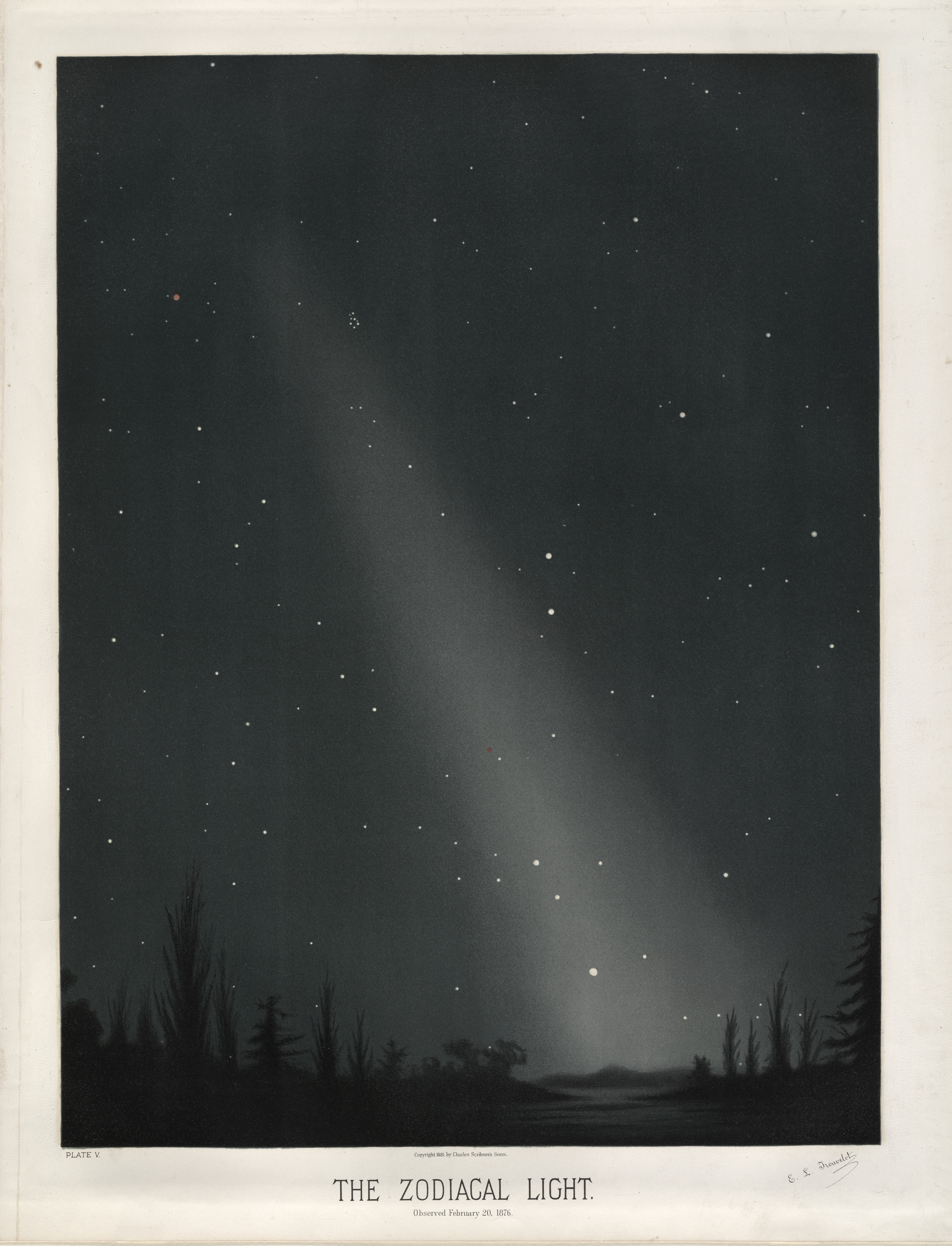 The zodical light. Observed February 20, 1876 (Plate V from The Trouvelot Astronomical Drawings 1881).